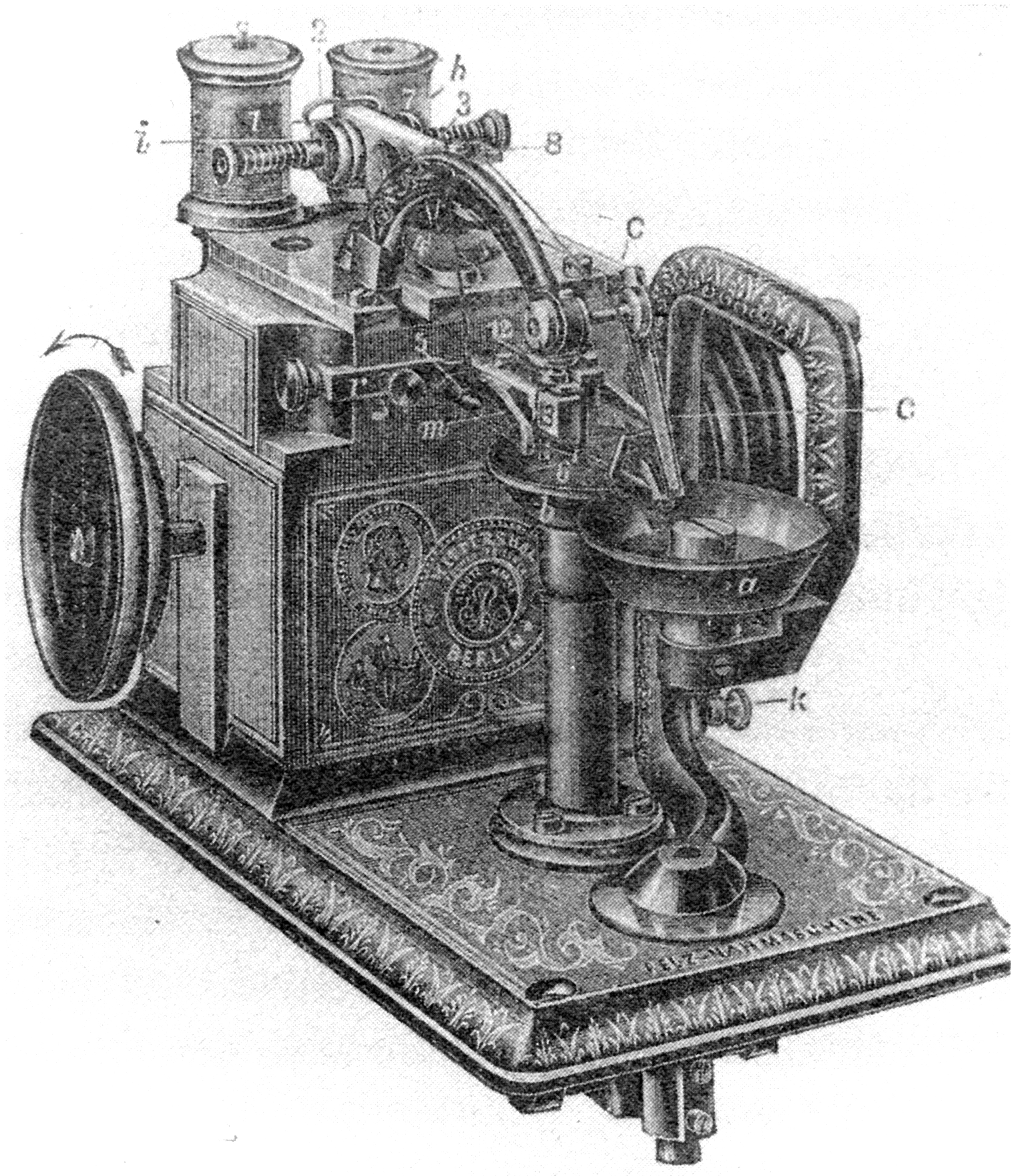 "Electra", one of the first fur-sewing machines, made by Joseph Priesner, Berlin 1872